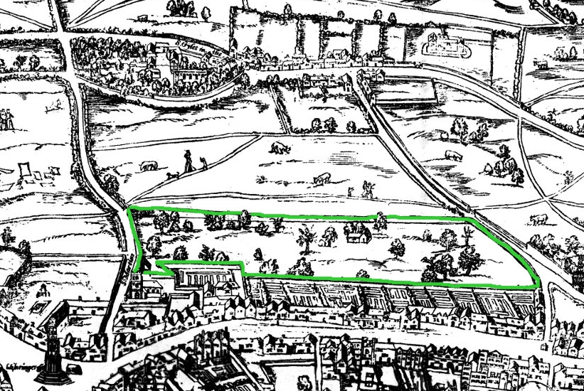 The earliest proper map (as opposed to panorama) of London known. Attributed to Ralph Agas, and probably surveyed between 1570 and 1605. The original was 6 foot 0.5 inches long by 2 feet 4.5 inches wide. This much reduced image is a scan of a copy of a lithograph of a copy, was itself badly repaired with sellotape and has had to be "restored"; so is hardly a truly faithful representation of the original, but few good copies exist and no other detailed public domain images are known.